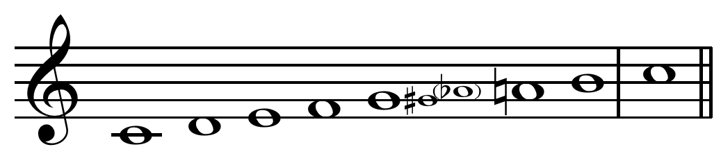 C major bebop scale.